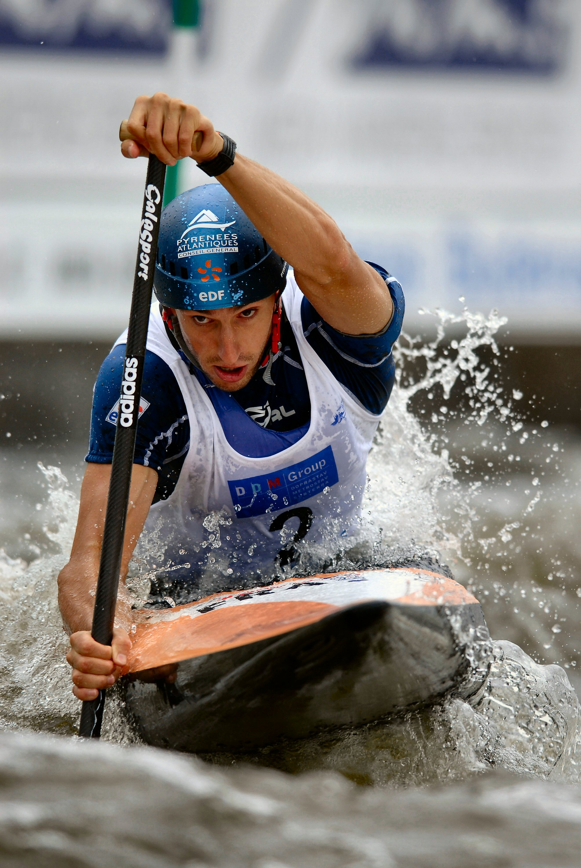 Tony Estanguet riding for the gold medal at 2006 World Championship at Troja slalom course in Prague, Czech Republic.